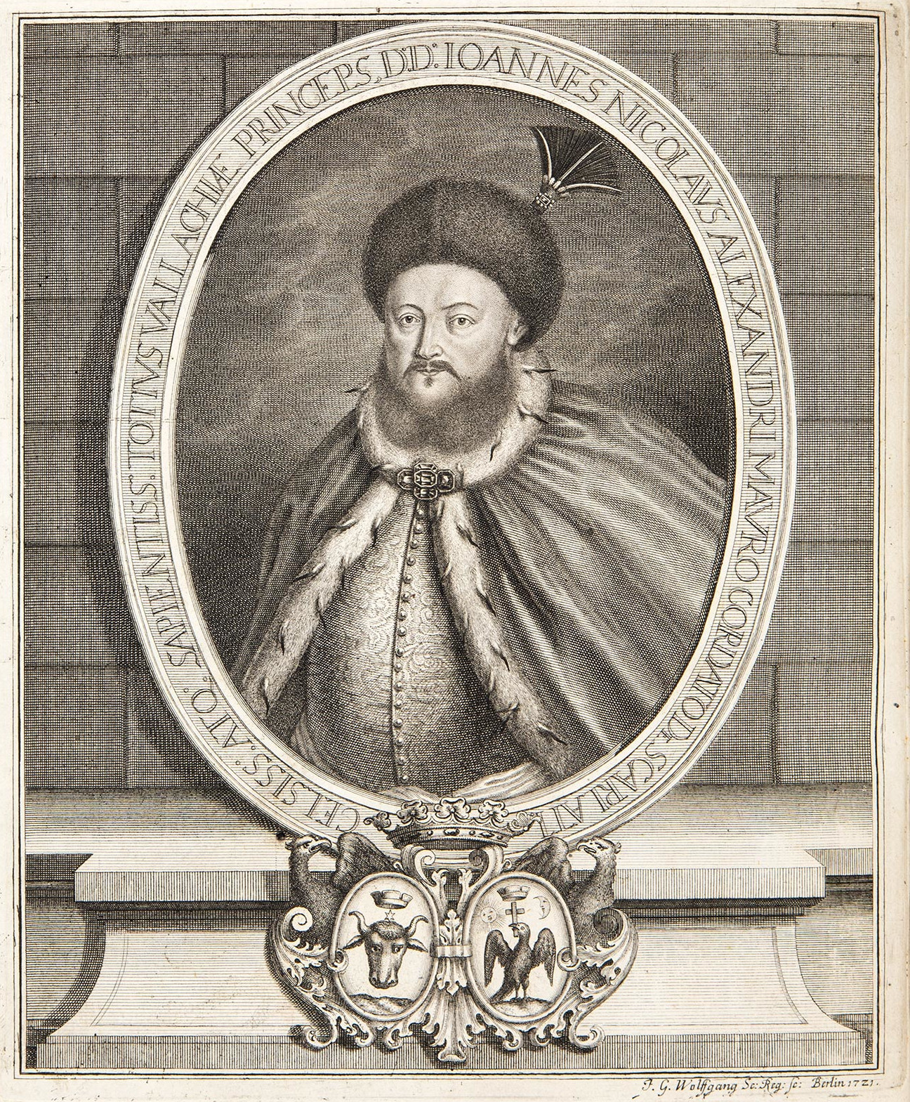 Nikolaos Maurokordatos 1721